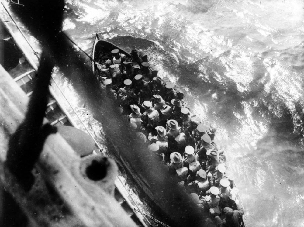 ID Number: C01419 Gallipoli Peninsula , 25 April 1915 A boatload of soldiers leaving the transport ship HMT Galeka on their way to land at Anzac Cove. Rights Info: No known copyright restrictions. This photograph is from the Australian War Memorial's collection Persistent URL